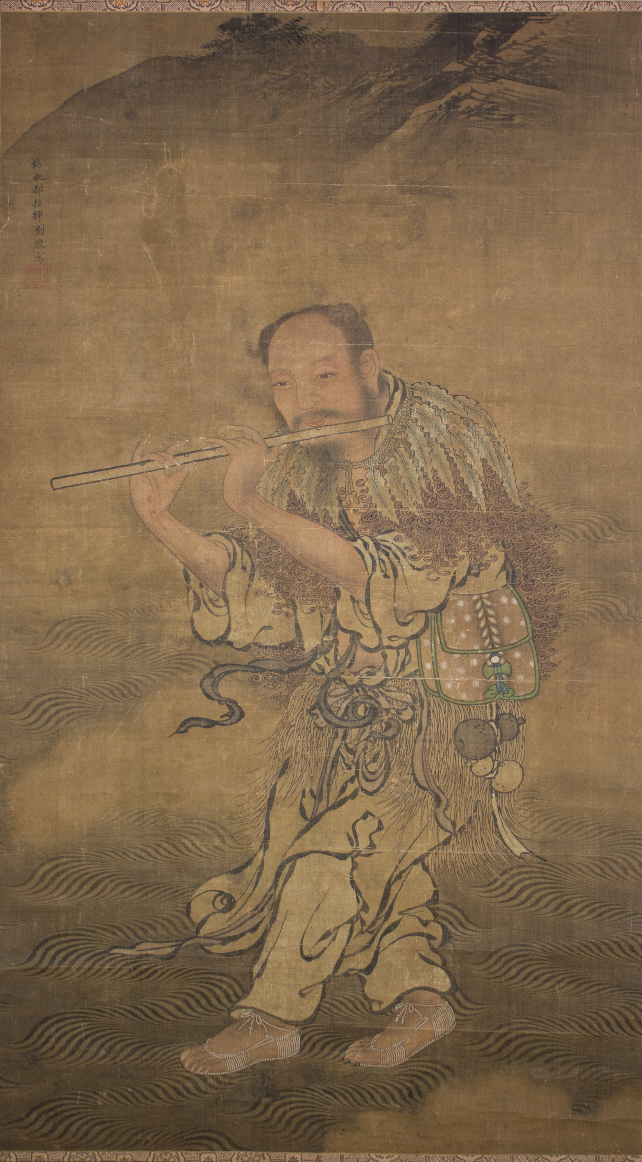 This painting depicts the Daoist immortal Han Xiangzi (韓湘子) miraculously treading the surface of a turbulent sea and playing a tune with a bamboo flute. The immortal wears a rustic cape of sawtoothed leaves and curly vegetal tendrils, pants with a skirt of reeds, a satchel lined with animal fur over his shoulder, and a belt holding two dried gourds.